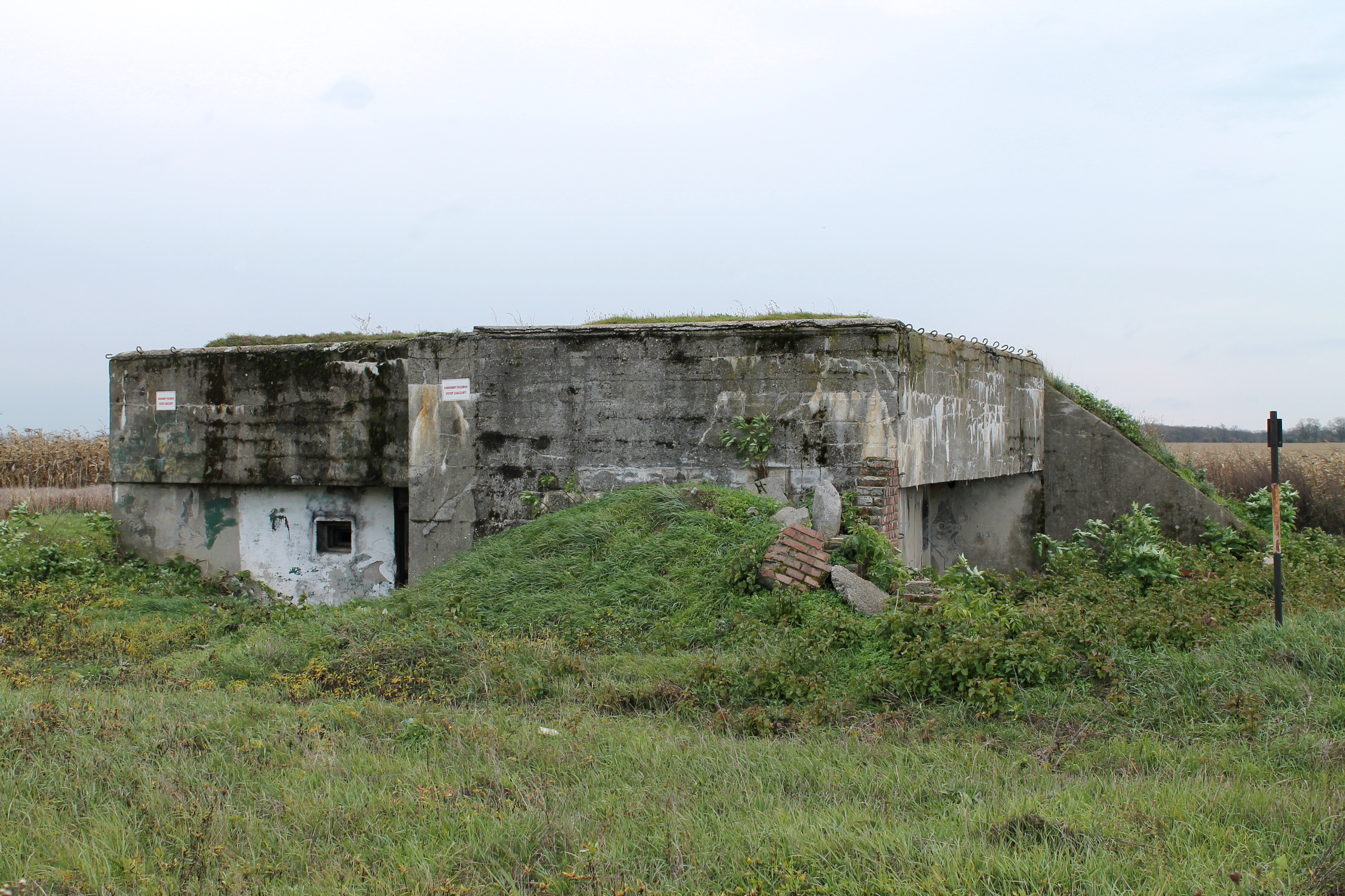 B-S 10 Tři hranice casemate, Bratislava, Slovakia